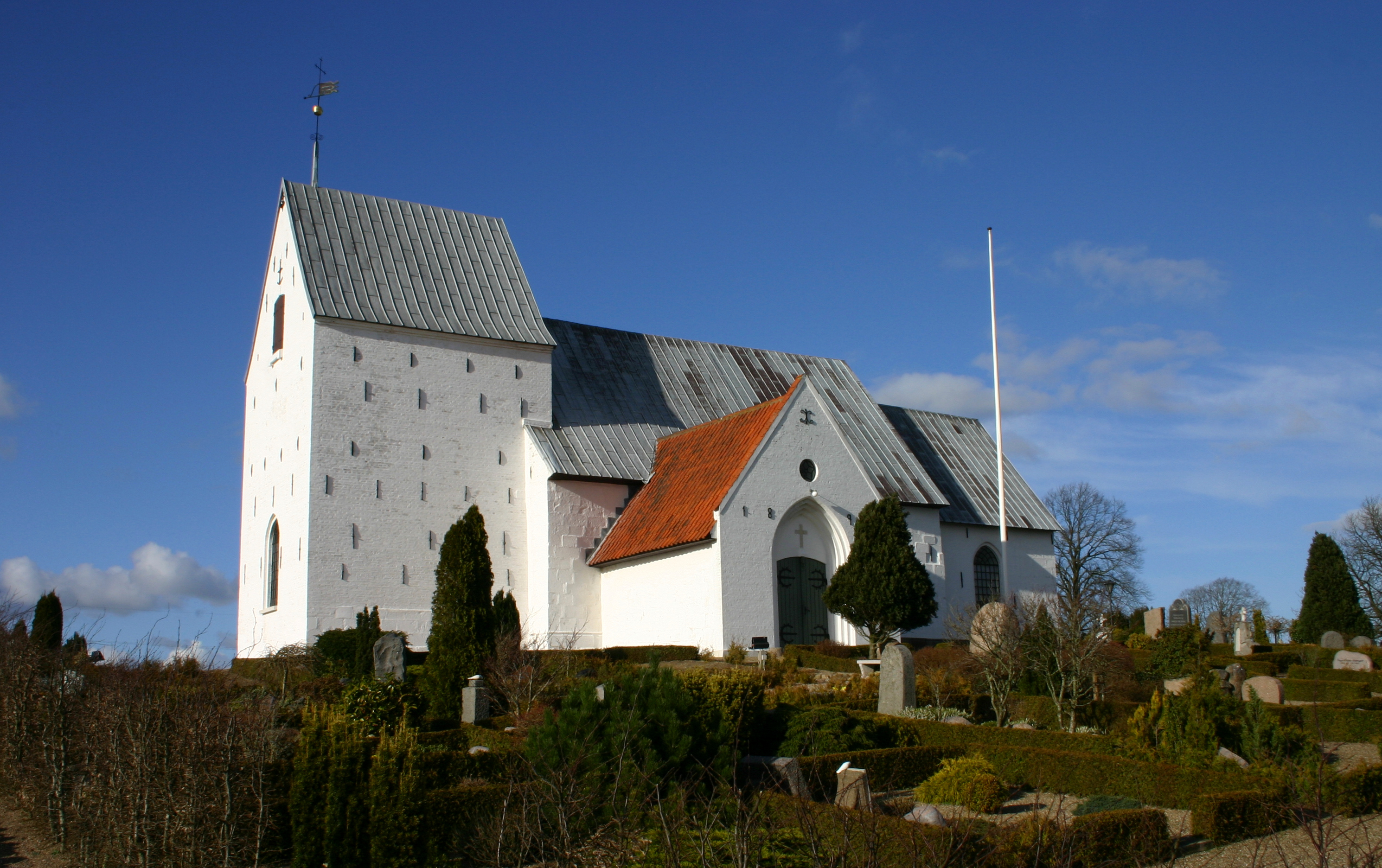 Harte Kirke Old church buildt in 12.century.Roman style.Placed on a hill in Harte, a little suburban city to Kolding